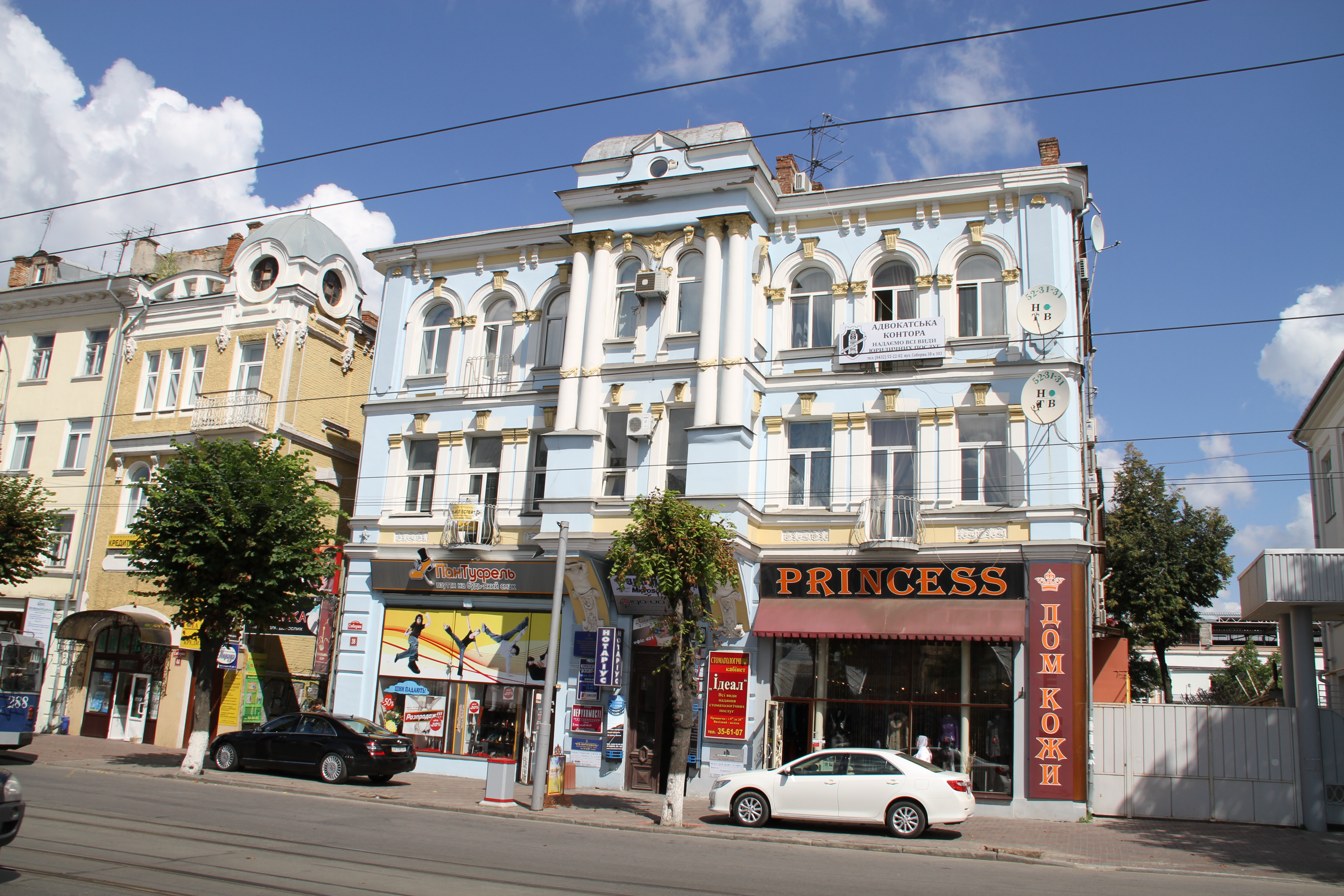 Building in Vinnytsya